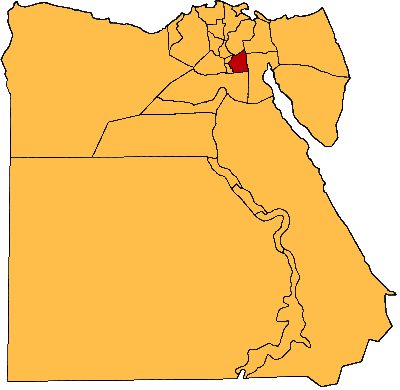 Location of the Helwan Governorate, in the greater Cairo region, in northern Egypt.